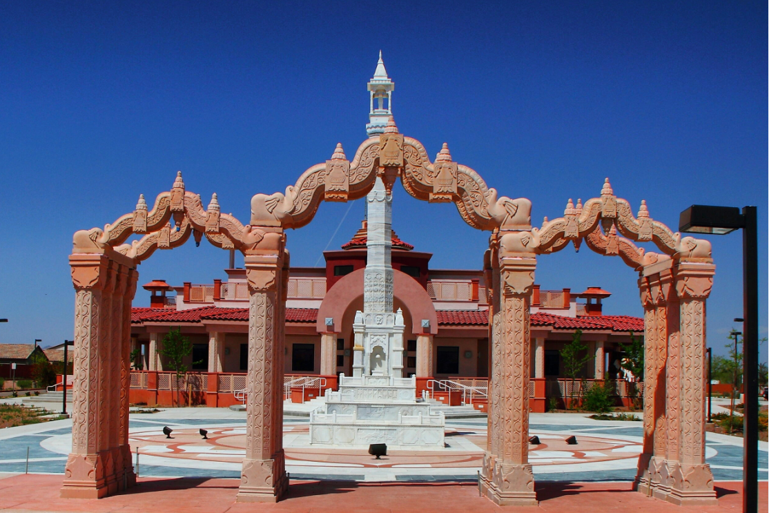 Image of Jain Center of Greater Phoenix Temple